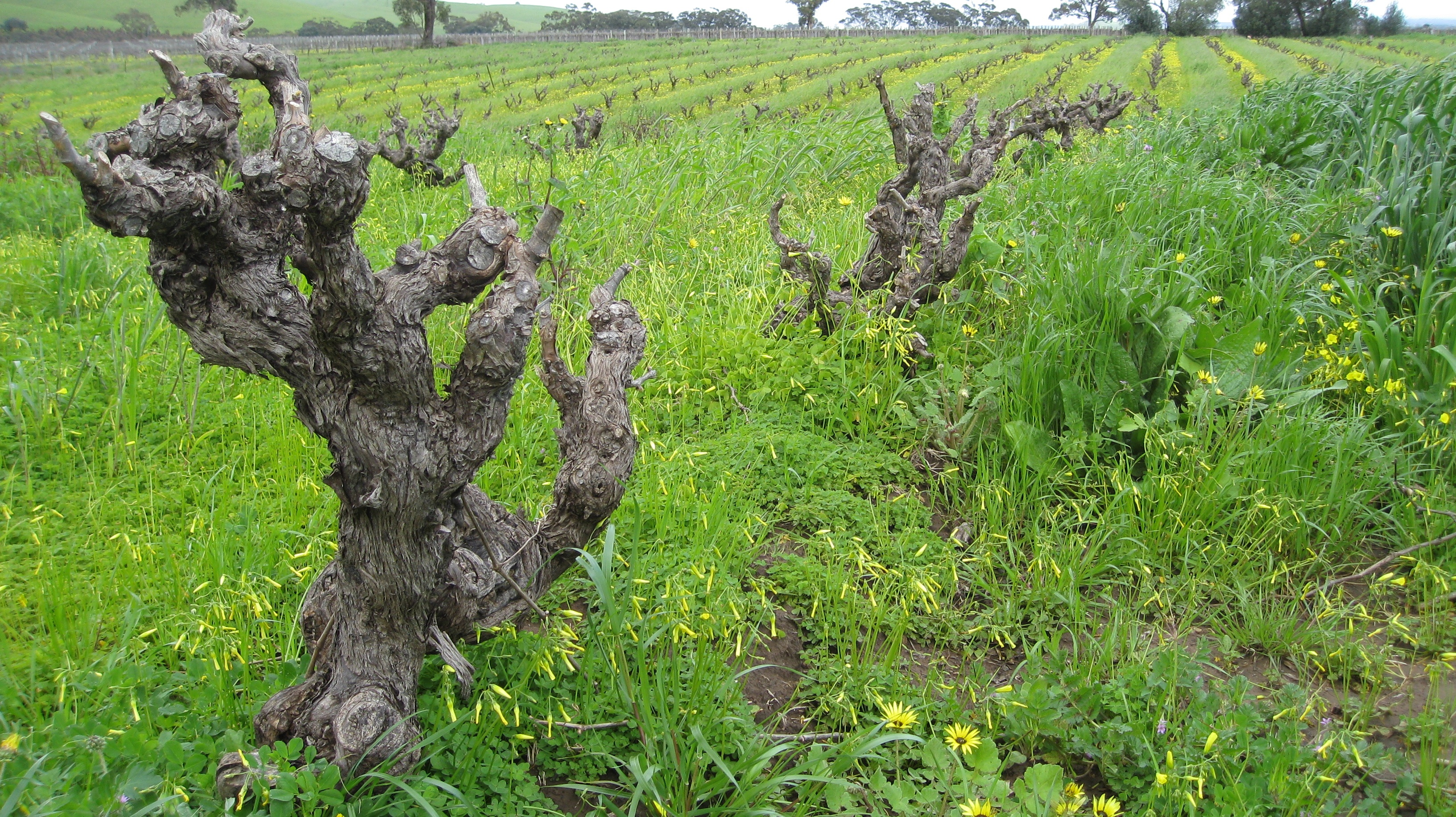 From Charles Melton Winery in South Australia in September 2010